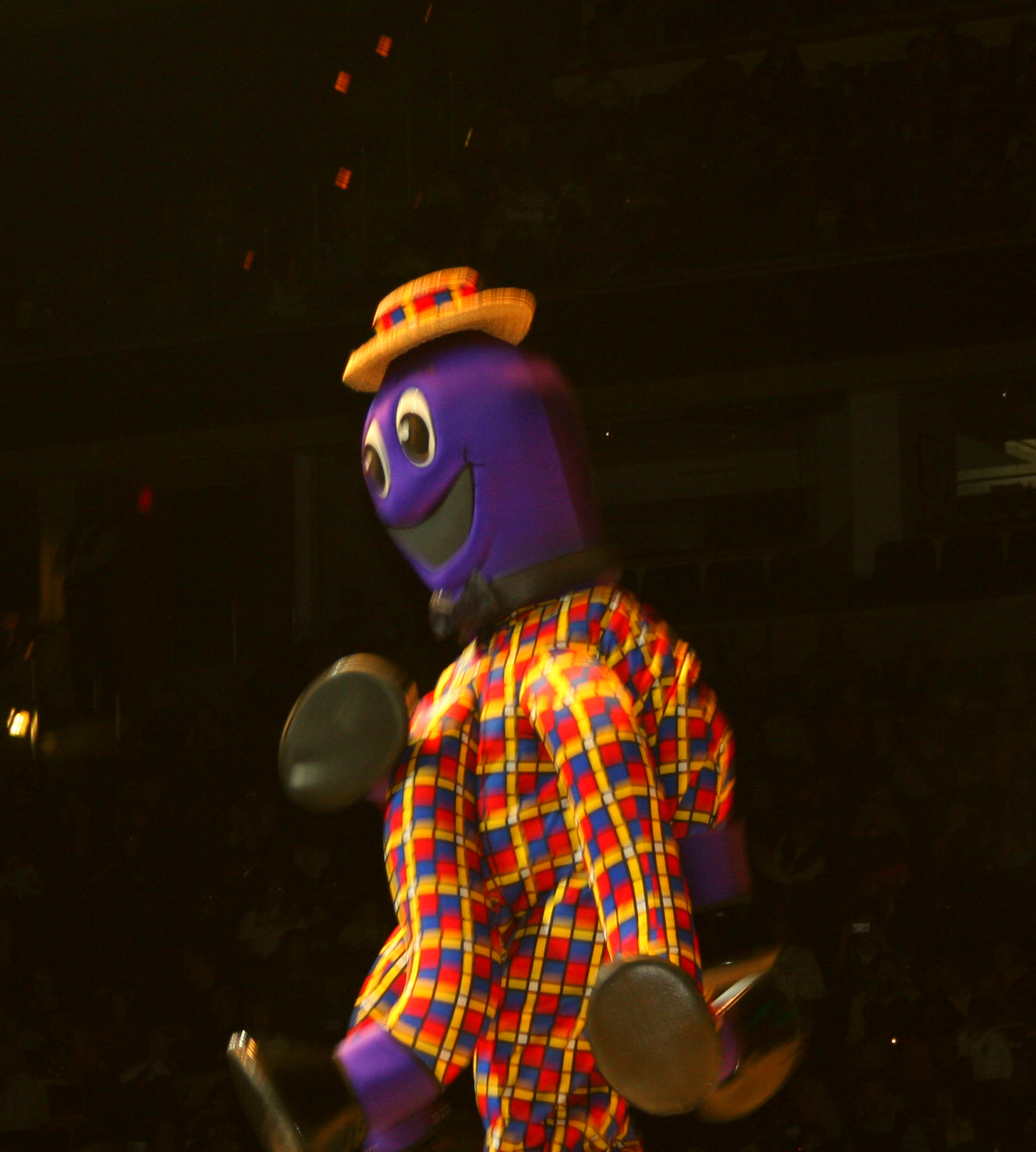 Henry the Octopus of The Wiggles Live @ the MCI Center - Nov. 8, 2007 Photo by: Anthony Arambula